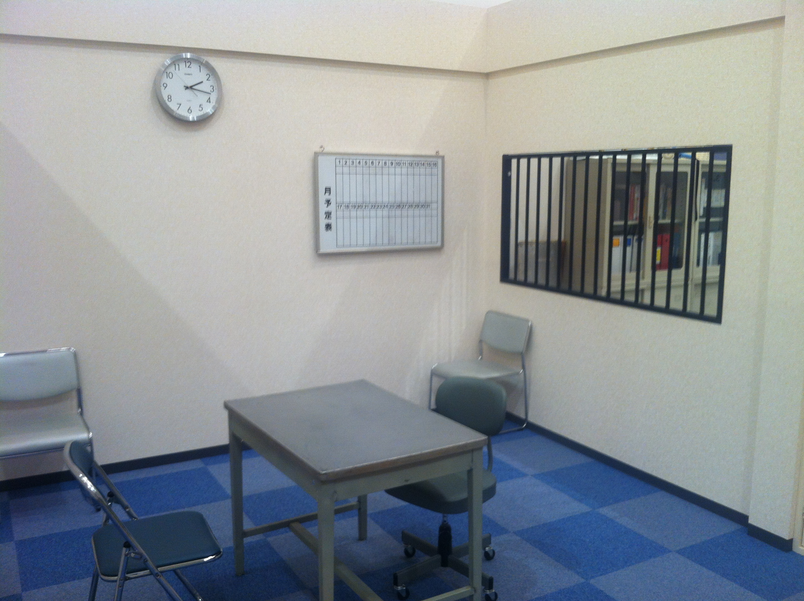 警察の取り調べ部屋である。ミシェル・ゴンドリーの世界一周のアートショーセットで Police Interrogation Room. A set at "Around Michel Gondry's World" art show